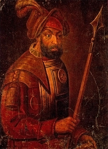 Ancient portray of Yermak, the first leader of the exploration of Siberia. The type of painting is called "parsúna" (from "persona" - person), it was transitional style between abstract iconographics and real paintings. Neither this, nor any other Yermak's portray (parsuna) was made in his lifetime. All the portrays were made by the descriptions from the chronicles. Another portray, and one more (click on image to enlarge).